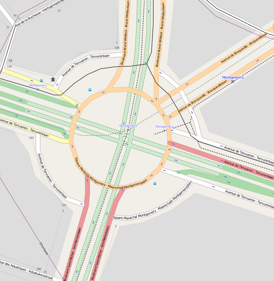 Street map of Montgomery Square, Brussels